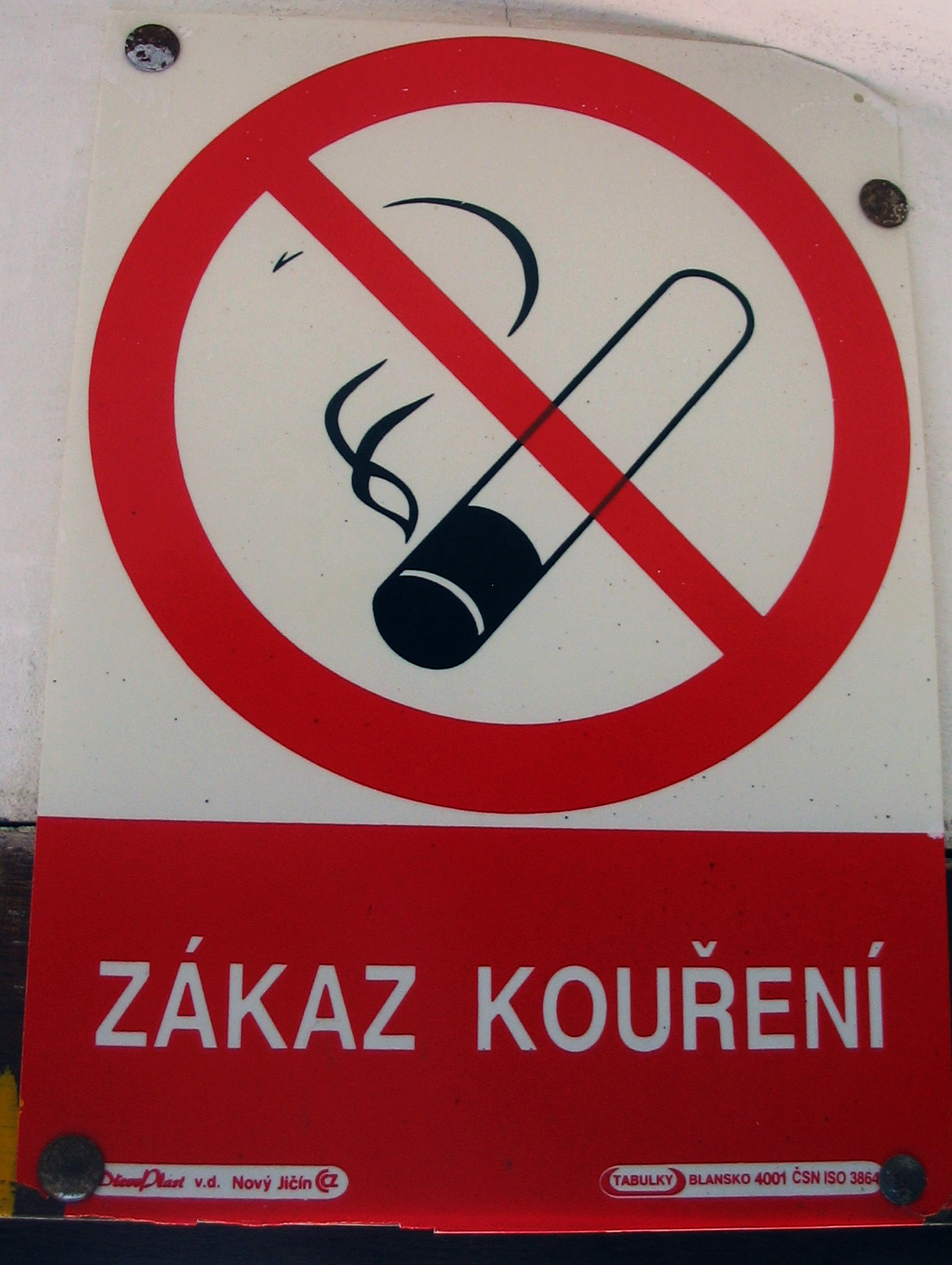 No smoking!